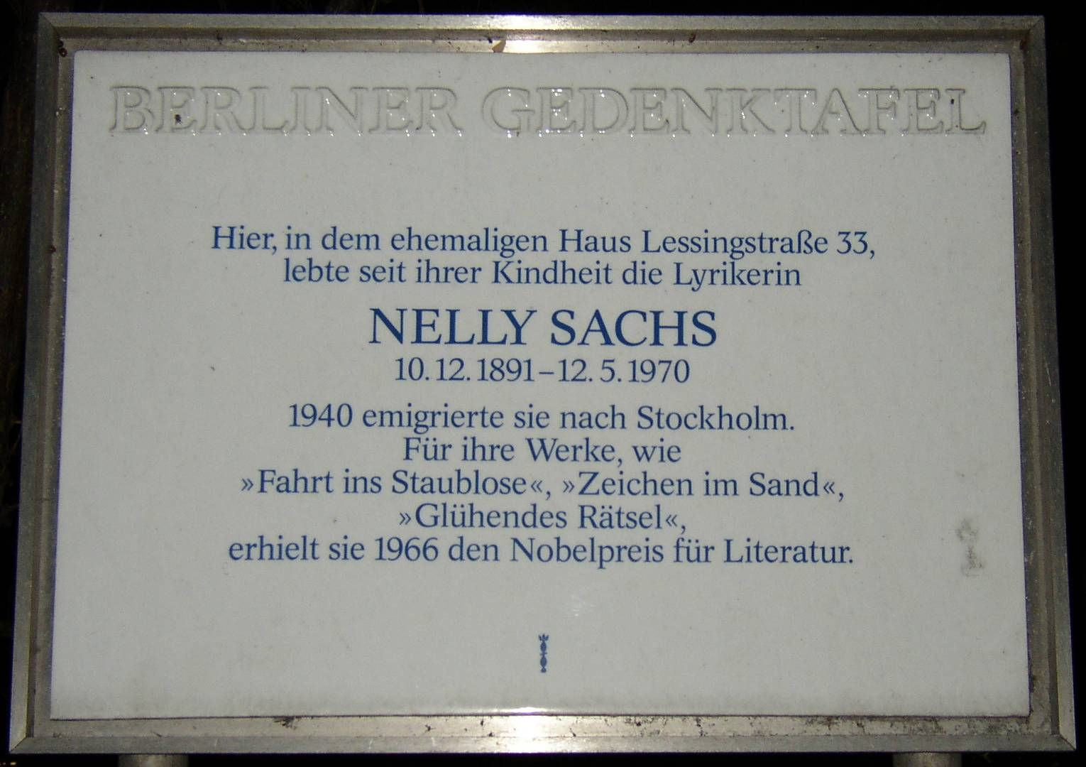 Berlin memorial plaque for Nelly Sachs, Lessingstraße 5 (former no. 33), 10555 Berlin, Germany; placed at the entrance of Hansachule, the residential building was destroyed by bombings during the Second World War. Unveiled in May 1995. Ca. 40 x 60 cm, made from china of the Königliche Porzellan-Manufaktur (KPM) (Royal China Manufacture) Inscription: BERLIN MEMORIAL PLAQUE Here, in the former house Lessingstraße 33 lived since her childhood the lyricist Nelly Sachs 10.12.1891 - 12.5.1970 In 1940 she emigrated to Stockholm. For her work, such as "Ride into the dustless", "Signs in the sand", "Glowing riddle", she was awarded the Noble Price for Literature in 1966.